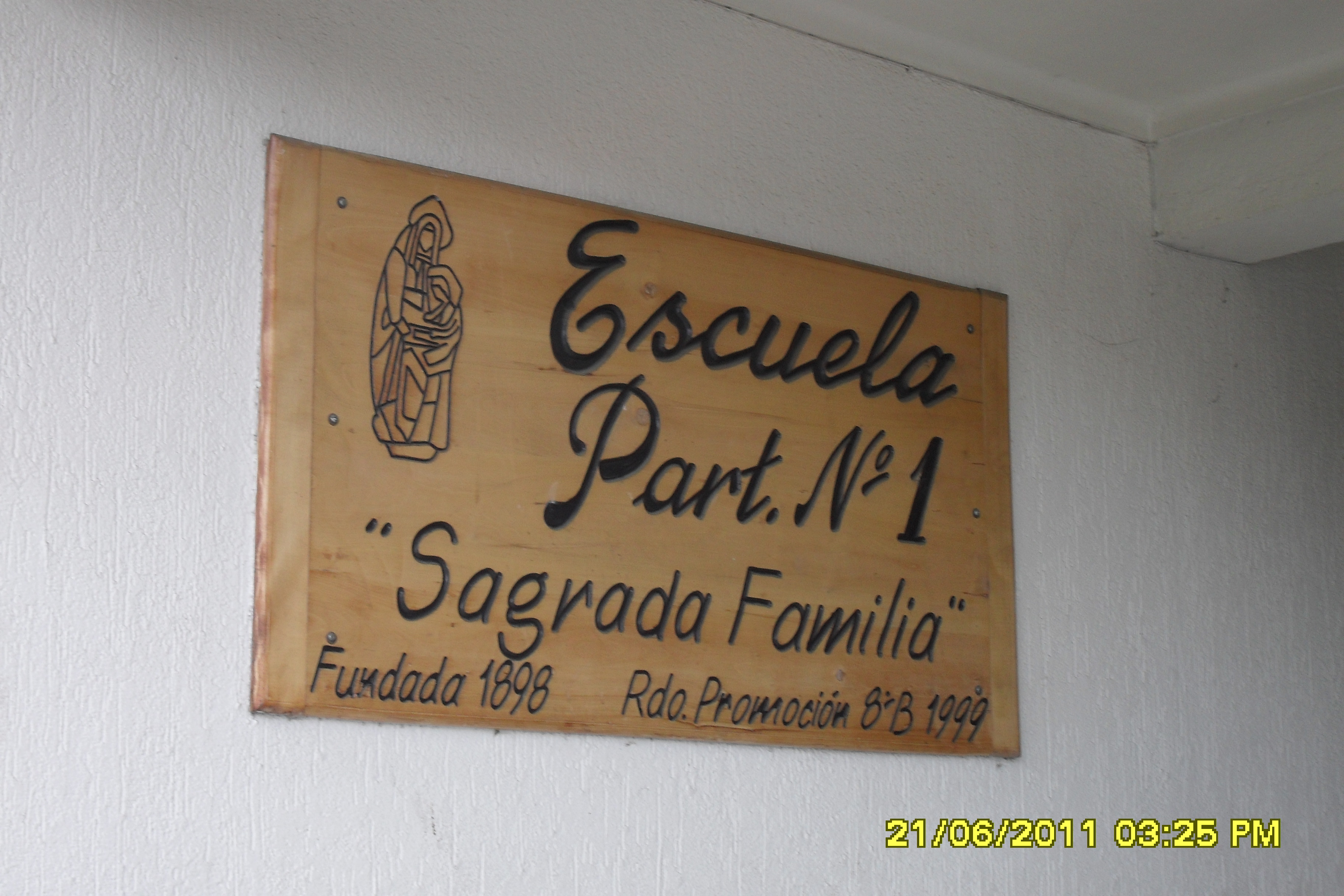 Edificio de Villarrica